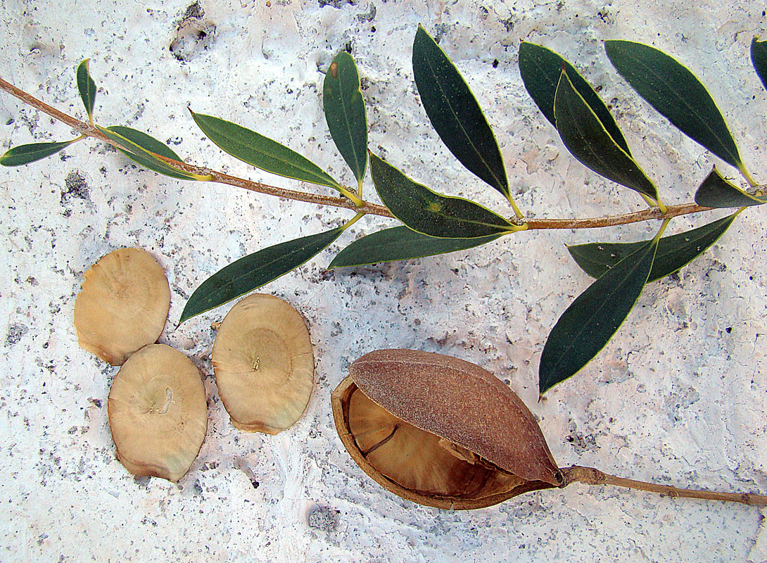 The pods of the Quebracho Blanco tree release wafer-like seeds which are wind dispersed. In context at